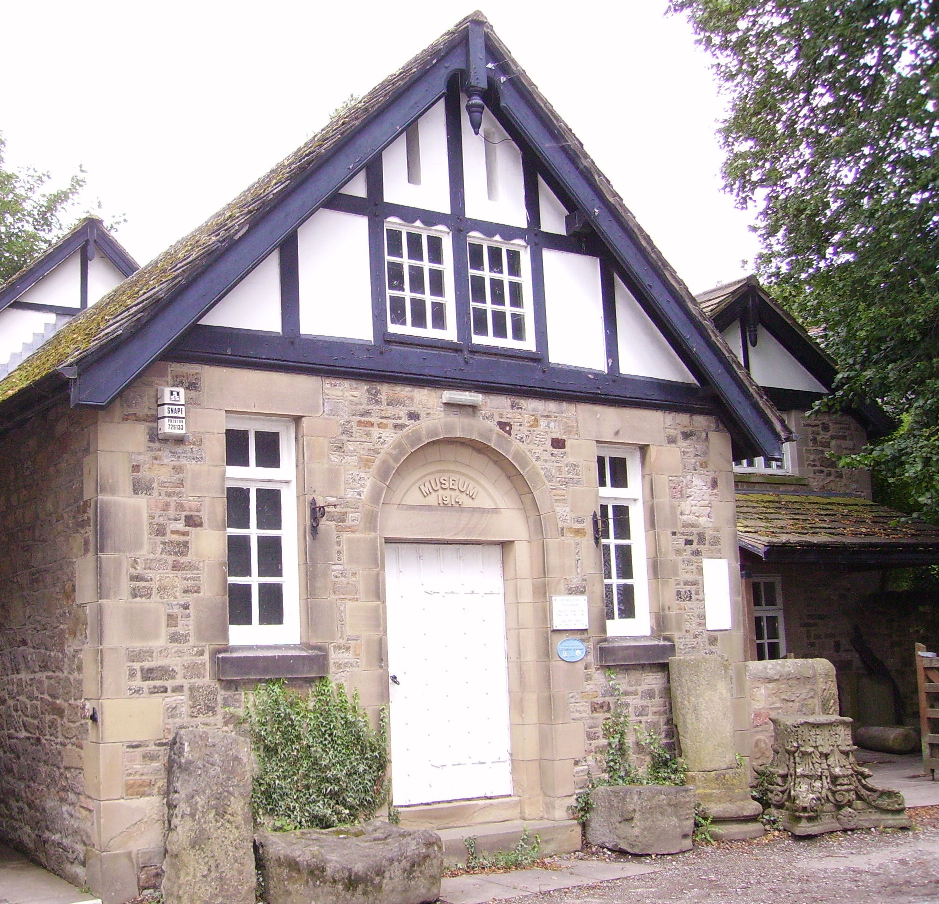 view of Ribchester, United Kingdom